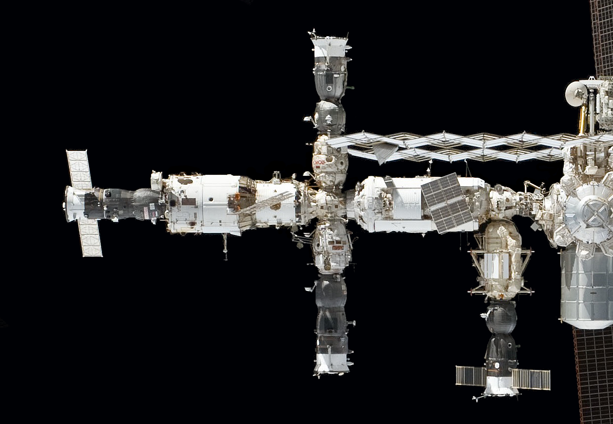 Cropped image of the ISS from the departing Atlantis on STS-135